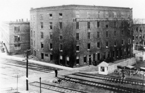 8x10 black and white photograph of the Flint Wagon Works which became a Chevrolet factory